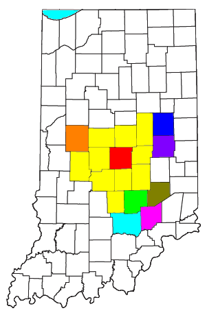 Map of Indianapolis-Carmel-Muncie, IN Combined Statistical Area (CSA): Red: Marion County, Indiana (City of Indianapolis, Indiana for the most part) Yellow: surrounding counties included in Indianapolis-Carmel-Anderson, IN MSA Blue: Delaware County, Indiana (Muncie, IN MSA) Light Green: Bartholomew County, Indiana (Columbus, IN MSA) Purple: Henry County, Indiana (New Castle, IN µSA) Light Blue: Jackson County, Indiana (Seymour, IN µSA) Orange: Montgomery County, Indiana (Crawfordsville, IN µSA) Light Purple: Jennings County, Indiana (North Vernon, IN µSA) Olive: Decatur County, Indiana (Greensburg, IN µSA)